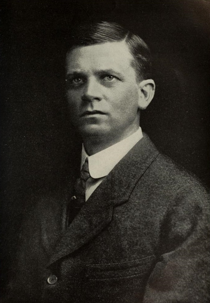 Portrait of Walter Eli Clark